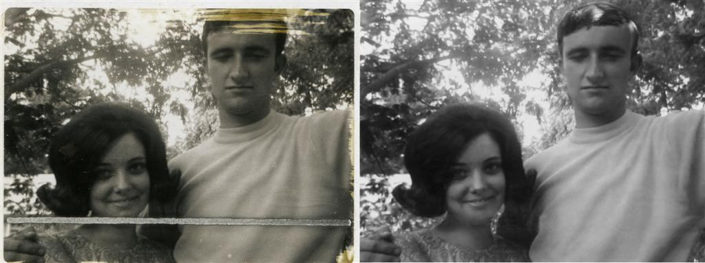 This was a damaged Polaroid image from the mid 1960's. Pictured are my mother and father. The hardest part was the area of the photo near the top of my father's hair. Another challenge was maintaining the continuity of the texture of my father's shirt.